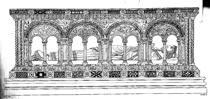 Henry I of Champagne